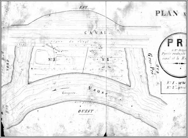 Map showing the digging of the canal in Martincour on the Meuse, and the diversion of the river Meuse.